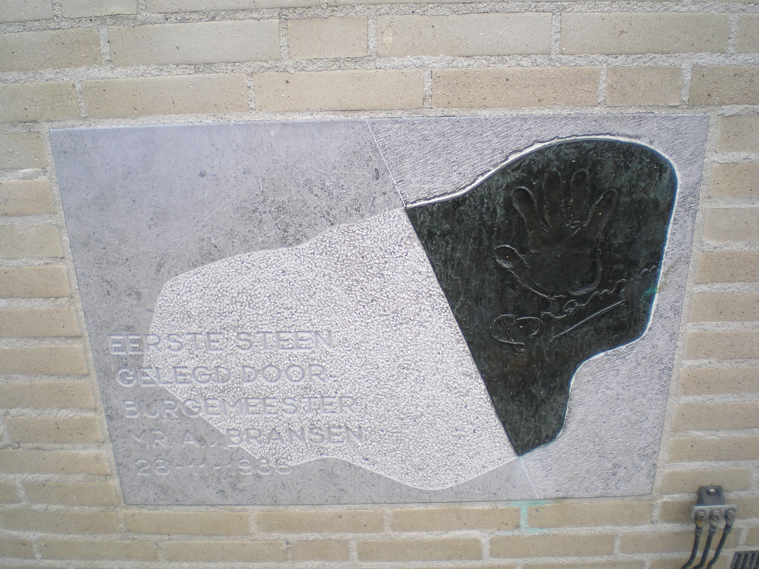 The first stone was laid on 28-11-1986 Wood Hall in the Netherlands